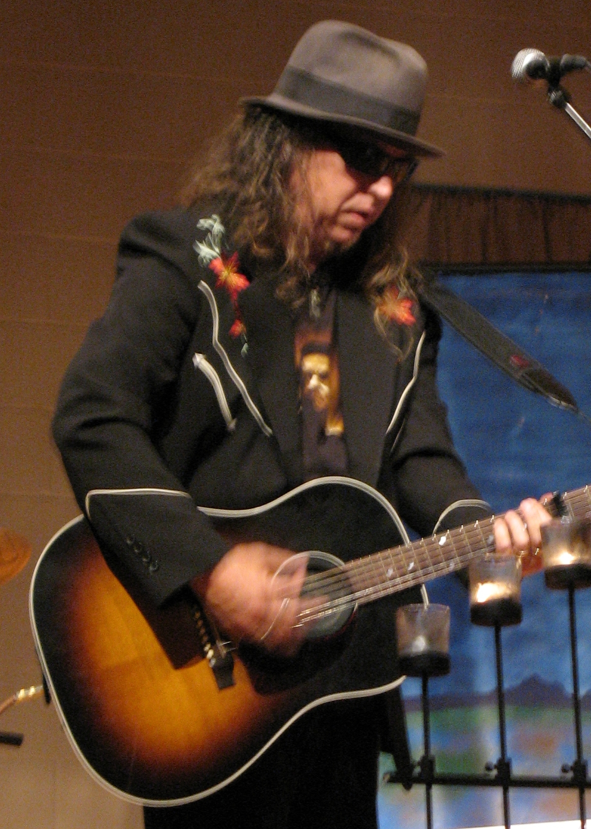 Terry Scott Taylor on scene in 2007.